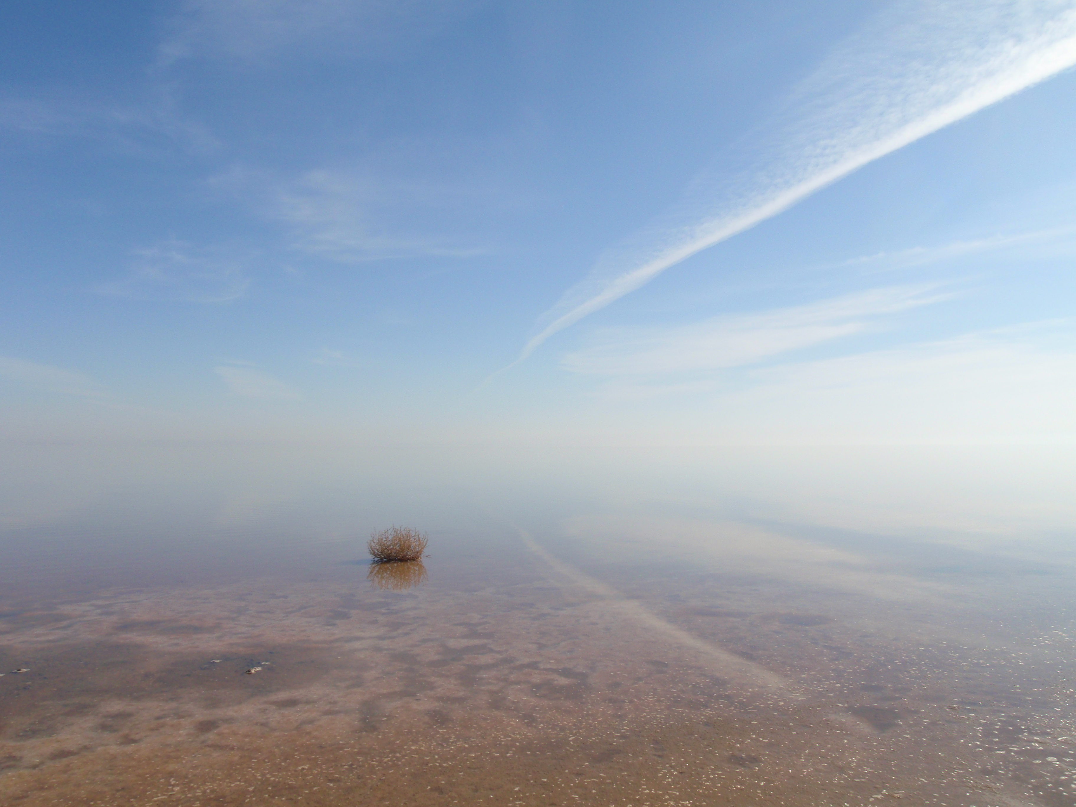 Lake Urmia, Iranian Azerbaijan.